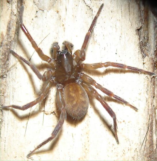 Found under a rock next to the Little League Baseball field. Typical cryptic mottled brown abdomen for this group of families where the only way to id is by the genitalia. This one has a very distinctive palpal tibia with it's double 90 degree processes. Since it's very dark, it's hard to get a good photo of this part. The species name has an interesting origin--the known range was Washington, British Columbia and Alaska--WA BRIT ASKA.